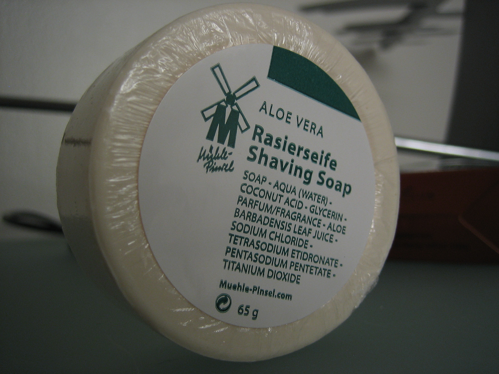 Soap for shaving that contains Aloe vera